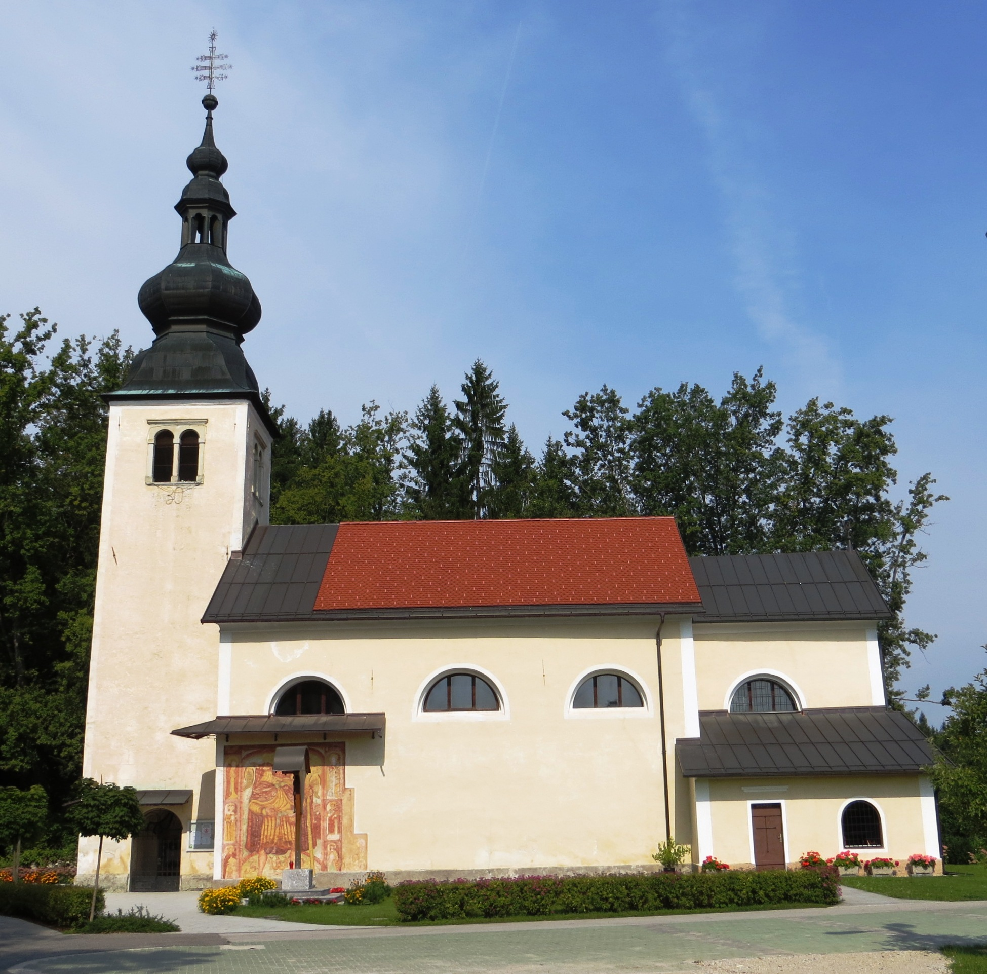 Virgin Mary Church in Breg ob Savi, Municipality of Kranj, Slovenia